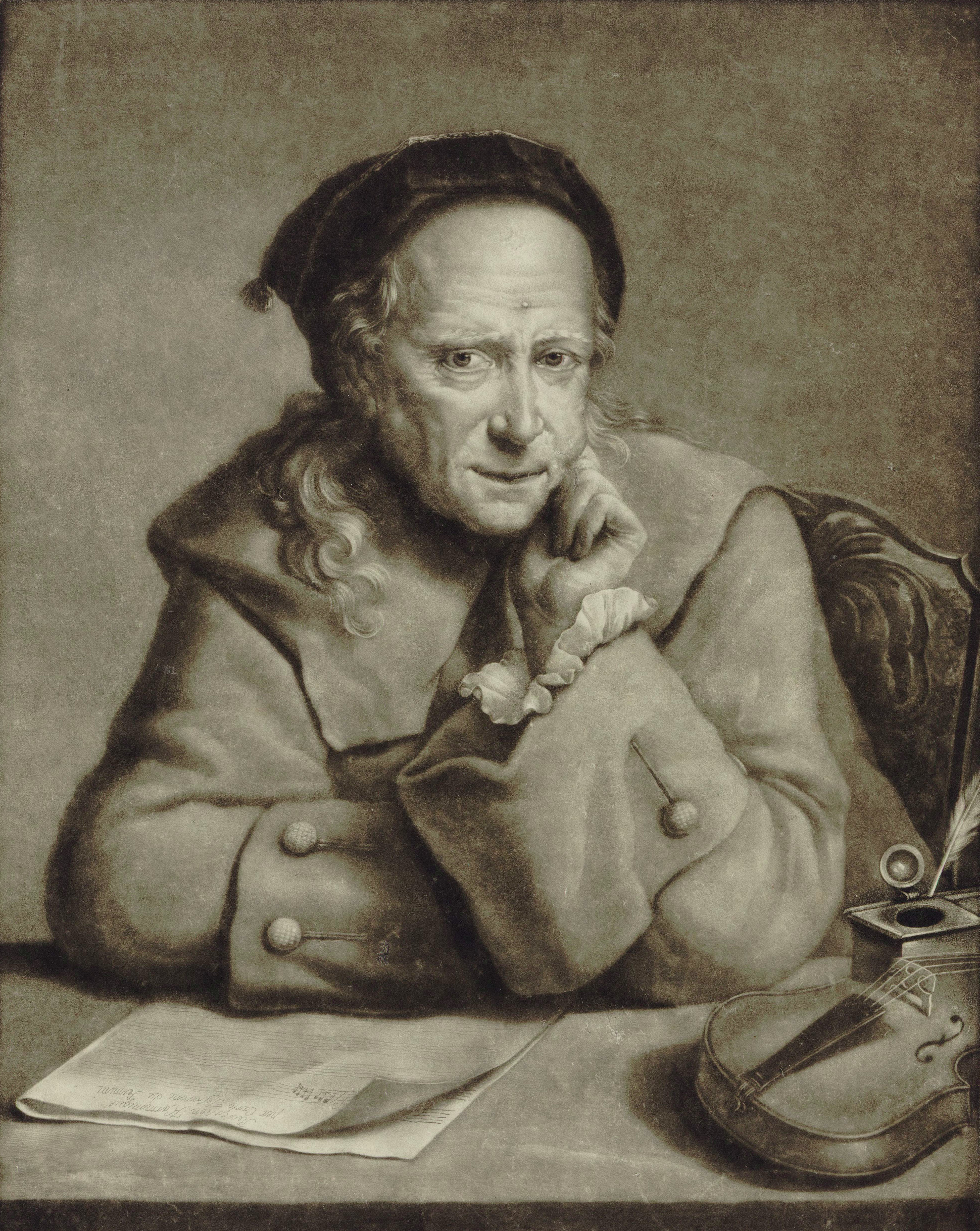 Depicted person: Carlo Tessarini